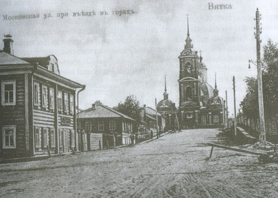 All Saints Church in the city of Vyatka